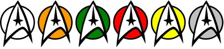 The Starfleet insignias with color codes used in Star Trek: The Motion Picture